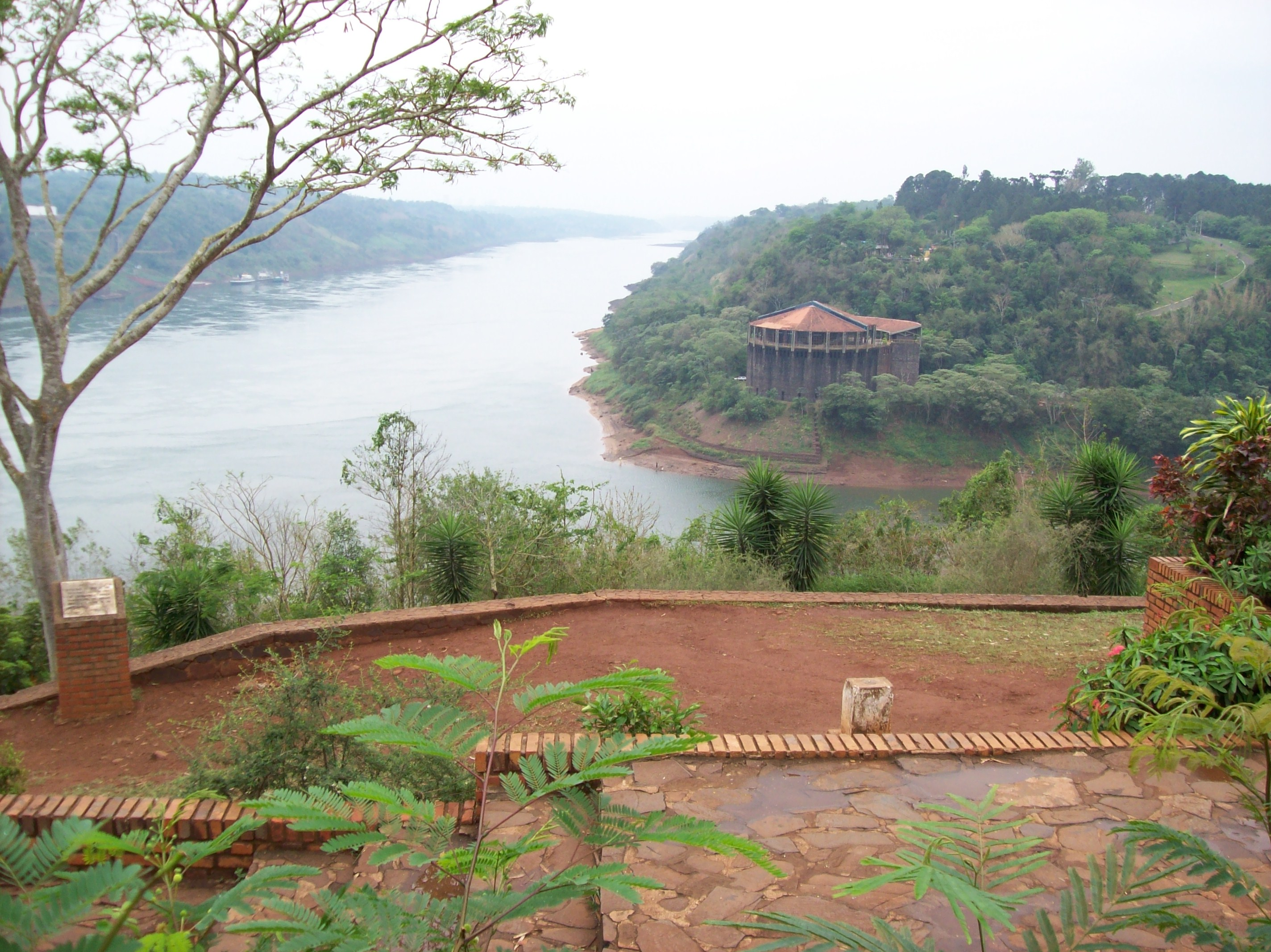 The triple frontier of Argentina, Brazil and Paraguay at the confluence of the Iguazu River (right) and the Parana (left). At the bottom of the image is Argentina, Brazil is at the top right, and Paraguay is to the left.